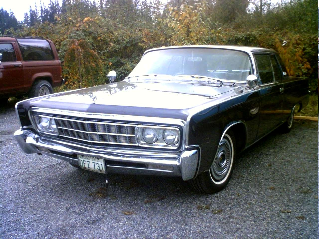 1966 Imperial Crown Coupe